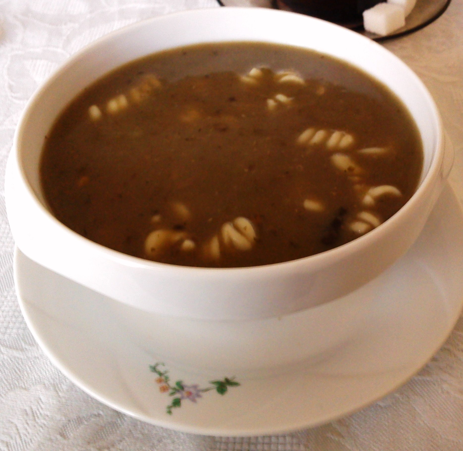 Duck blood soup. Poland (Oborniki Distr.).